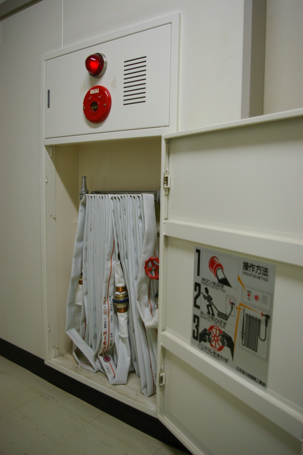 Fire alarm & indoor fire hydrant.